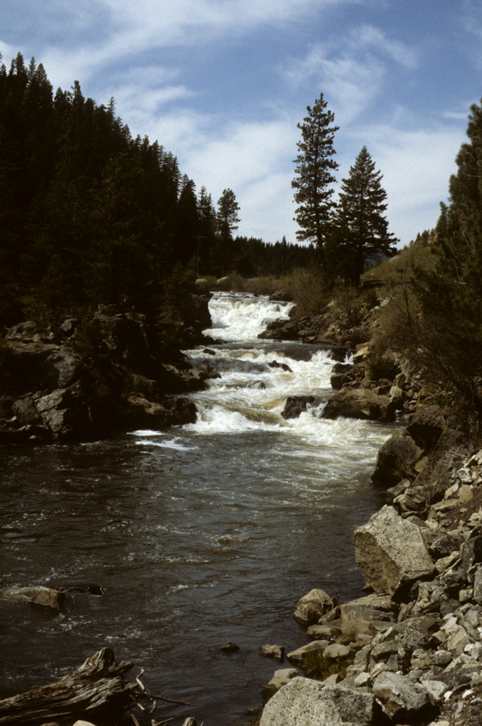 Falls on the Little Salmon River, Idaho